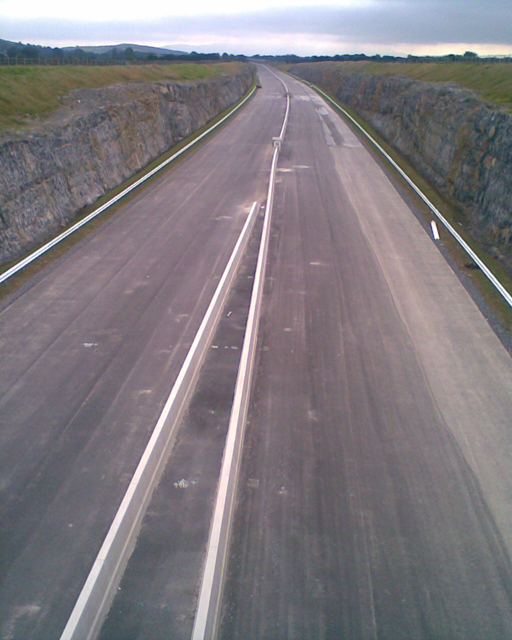 Part of the M8 Cashel to Cullahill scheme north of Cashel